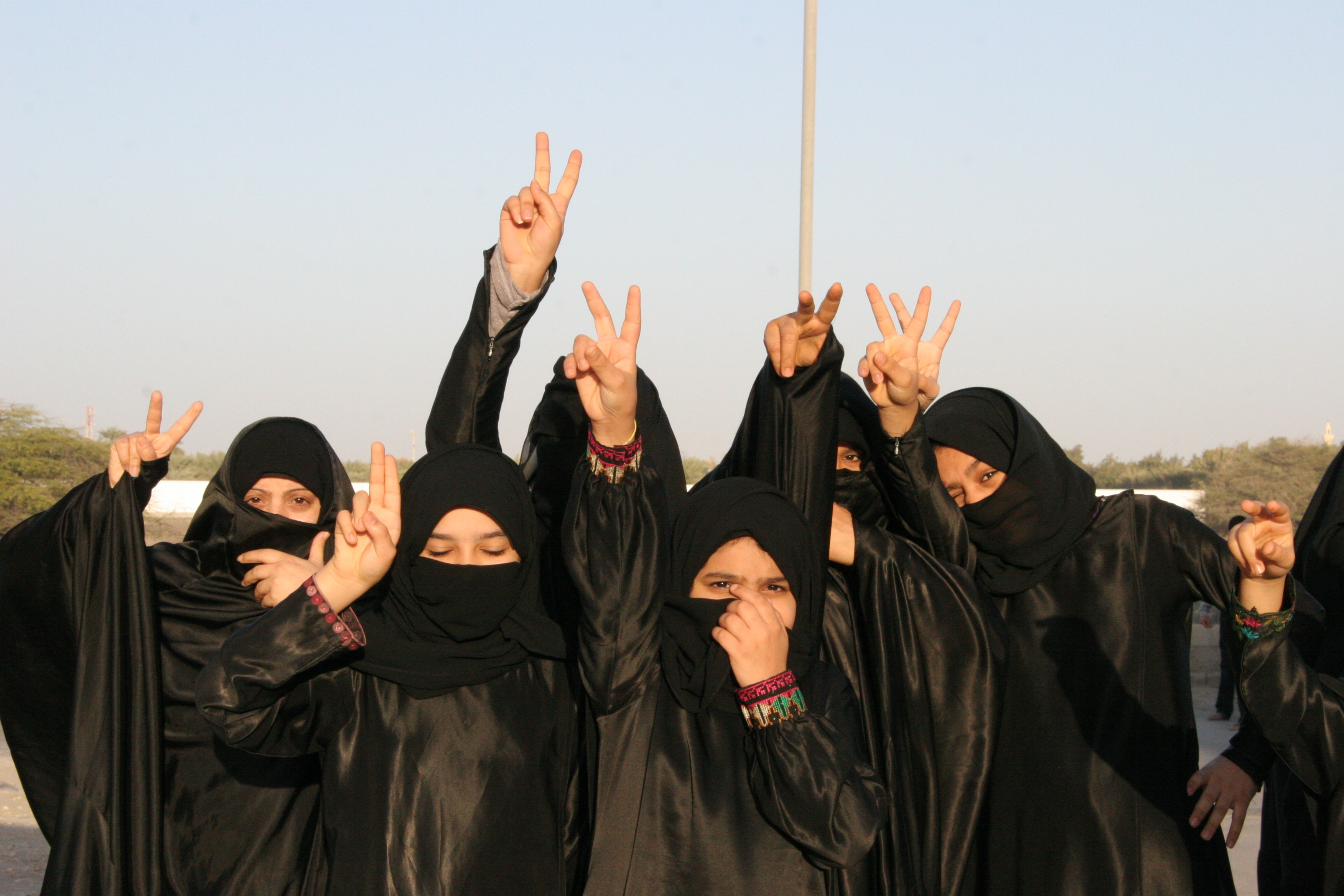 Women showing the V-sign In Bahrain, witnesses say riot police have tried to disperse protesters with tear gas and rubber bullets. The clashes took place as officers attempted to stop people gathering for a major rally in the capital, Manama. It follows demonstrations on Sunday, with protesters calling for reform in the island kingdom. Bahrain has Sunni muslim rulers but the population is 70 per cent Shia, who claim they are regularly discriminated against.